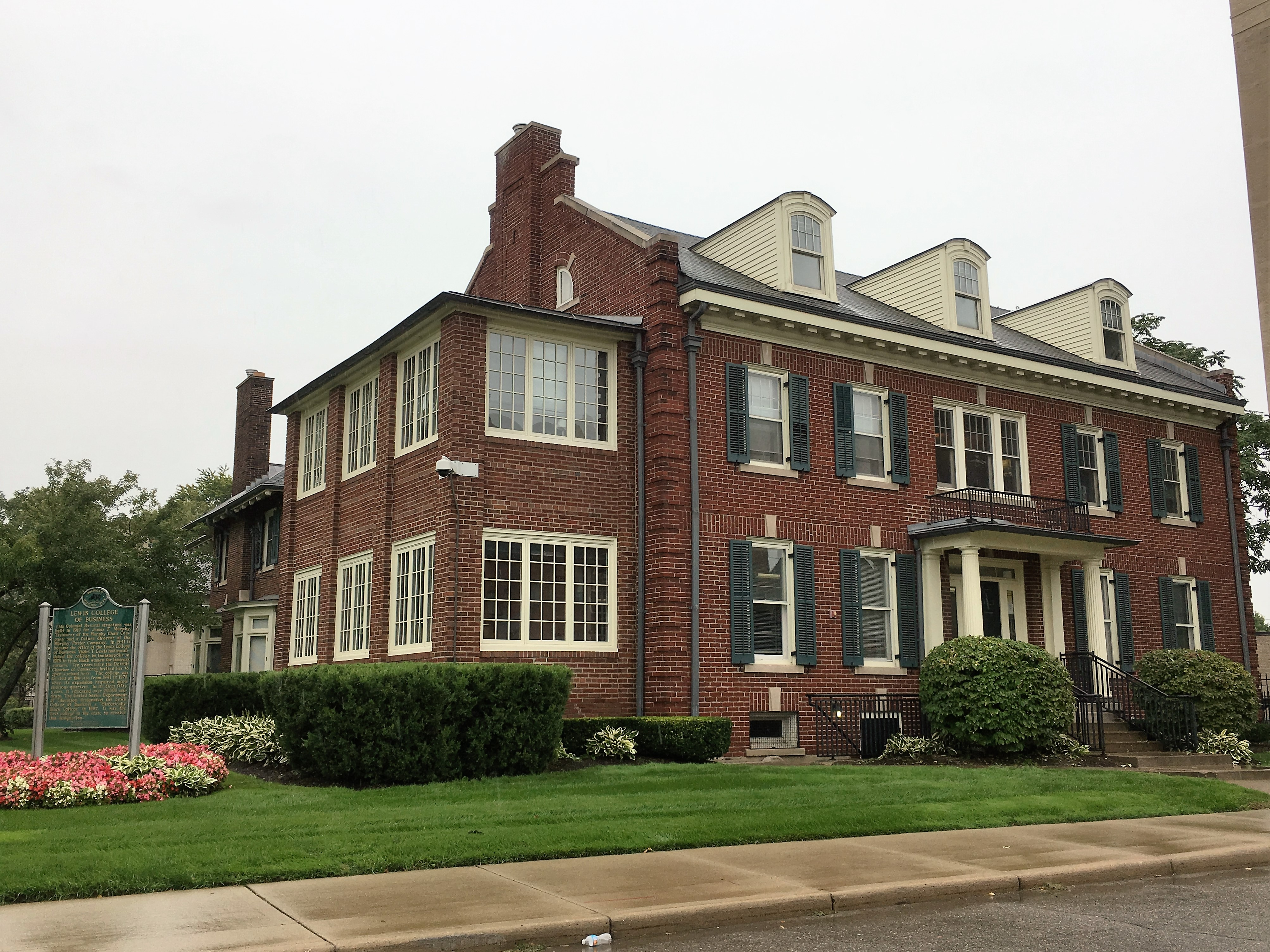 This building of the Lewis College of Business was used as its campus from 1941-1976. The original Lewis College of Business was started in 1928 in Detroit, Michigan during the Great Depression. It was begun as the only black business college in Michigan by Dr. Violet T. Lewis. The focus was to train black women for secretarial jobs. After the Civil Rights era, the college enhanced and added to its program offerings. Needing more space, the college relocated to a larger location within the city. After 70 years of successful operation and the graduation of over 27,000 students, Lewis College closed its doors in 2013. Photo Taken from East Ferry Avenue and John R Streets, Wayne County, Detroit, Michigan.